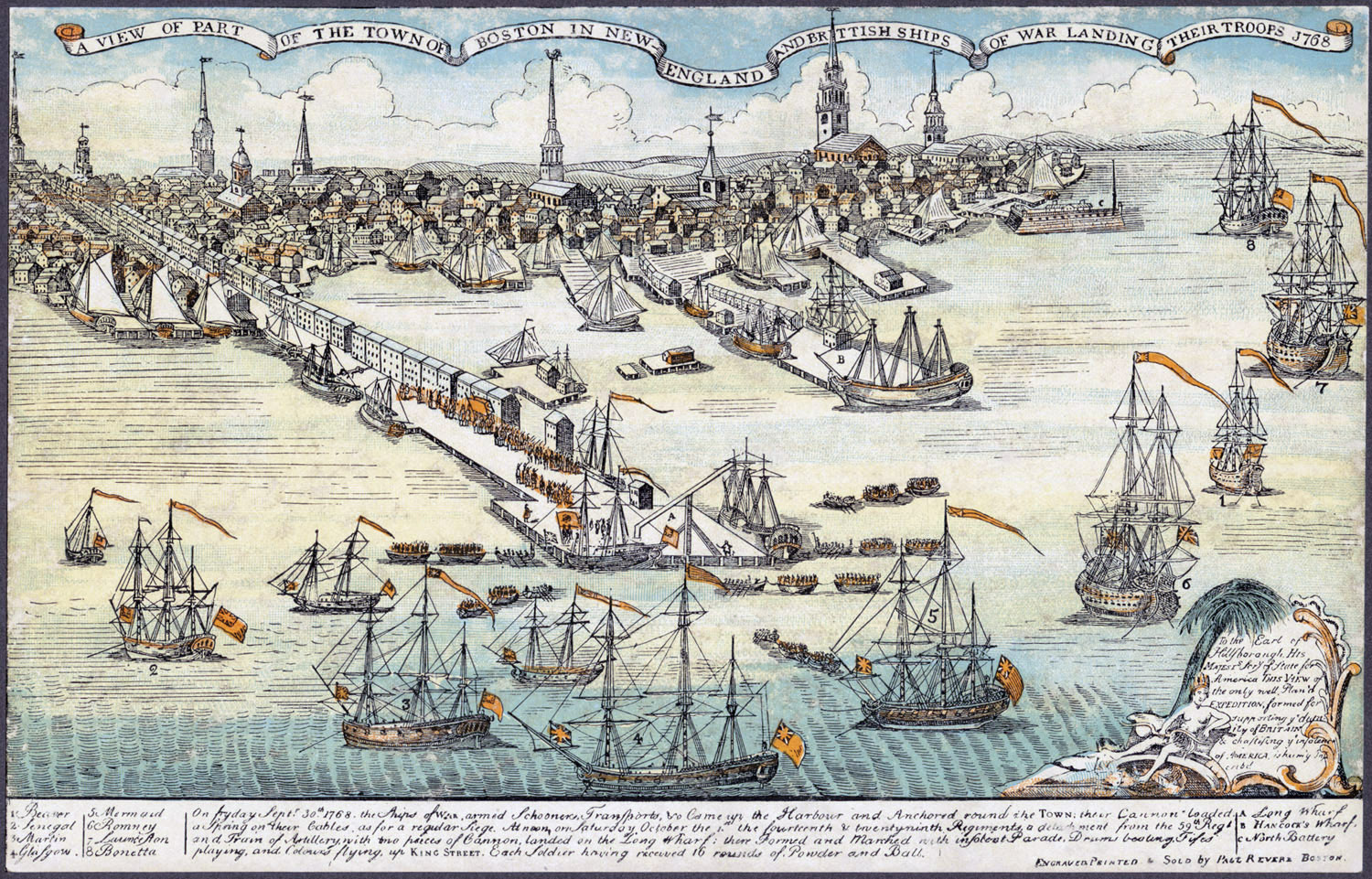 A view of the Town of Boston in New England and British ships of war landing their troops, 1768